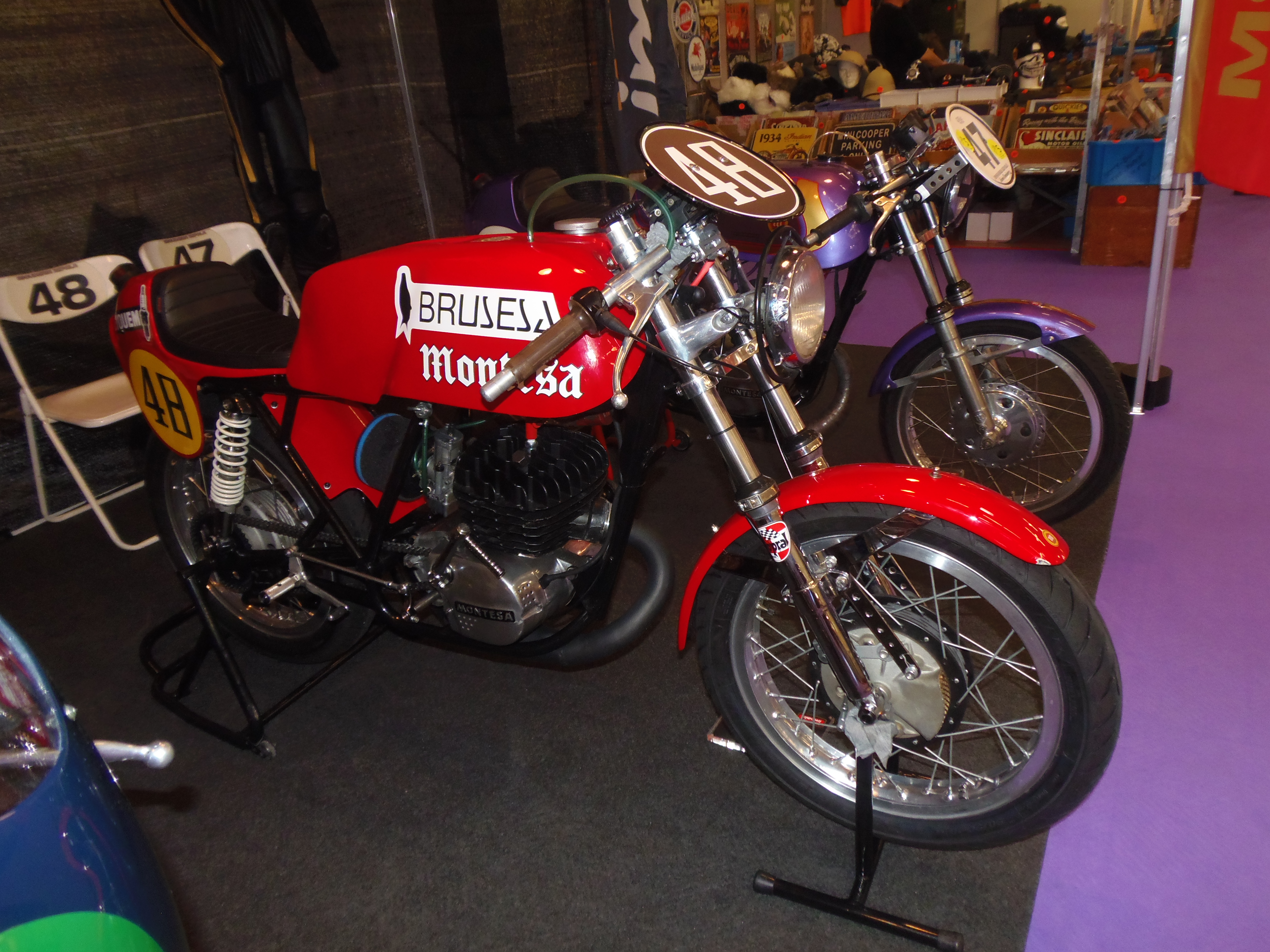 Montesa Rapita 250. On this bike, Josep Coronilla and Jordi Lluís Boquet finished 12th at the 1976 24 Hores de Montjuïc